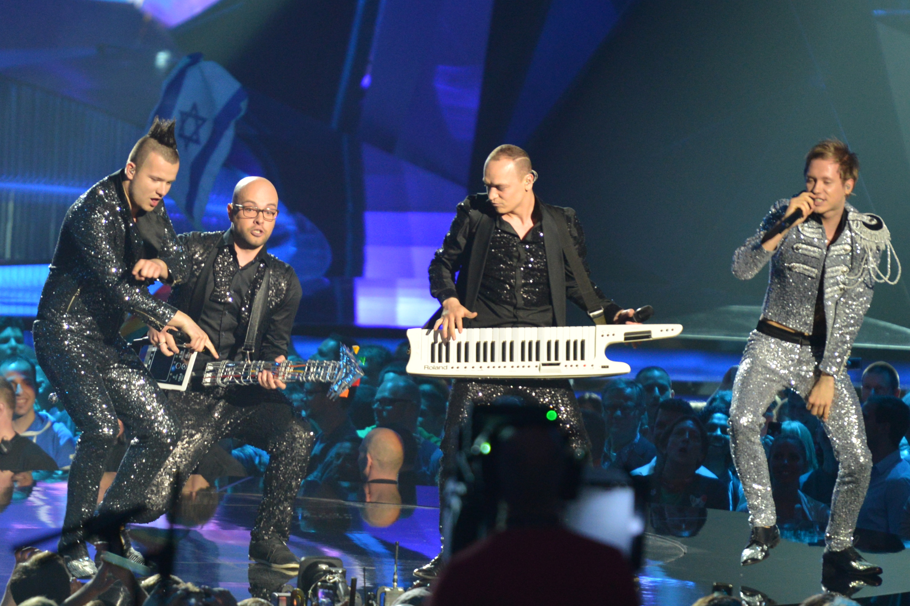 PeR representing Latvia with the song "Here We Go" during the second dress rehearsal of the second semi final of the Eurovision Song Contest 2013 in Malmö. (Help translate this text)